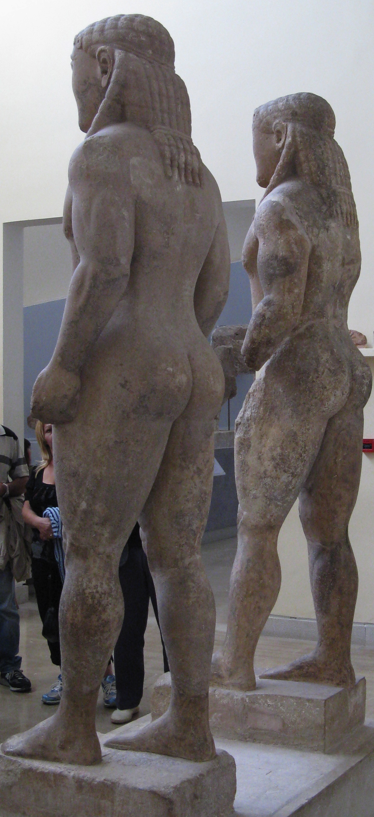 Life size marble statues of Kouroi. They were formely known as Kleobis and Biton, but are nowadays considered to represent the Dioscuri, the sons of Zeus, Begining of 6th c BC. Location: Archaeological Museum of Delphi.